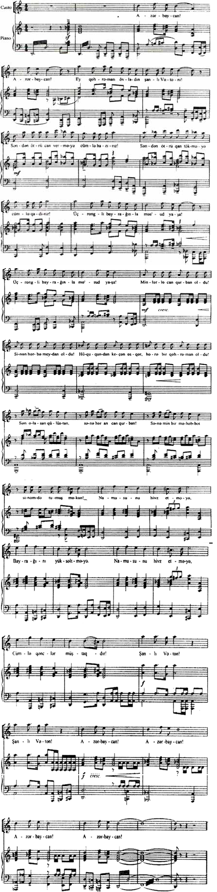 National anthem of Azerbaijan.